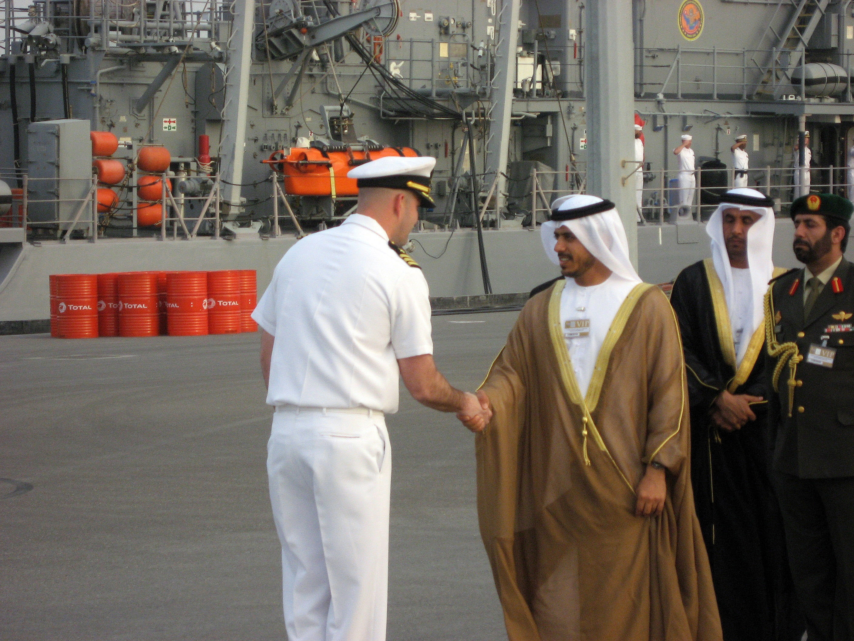 ABU DHABI, United Arab Emirates (Feb. 19, 2007) - Cmdr. Scott Davies, commander, Mine Countermeasures Division (MCMDIV) 31, greets Sheikh Sultan bin Tahnoon Al Nahyan, chairman of Abu Dhabi Tourism Authority and Abu Dhabi National Exhibitions Company, following opening ceremonies for the naval portion of International Developmental Exchange (IDEX) 2007. Two U.S. Navy mine countermeasure vessels, both forward-deployed to Bahrain, and an MH-53 mine countermeasures helicopter participated in the international defense exhibition. U.S. Navy photo (RELEASED)